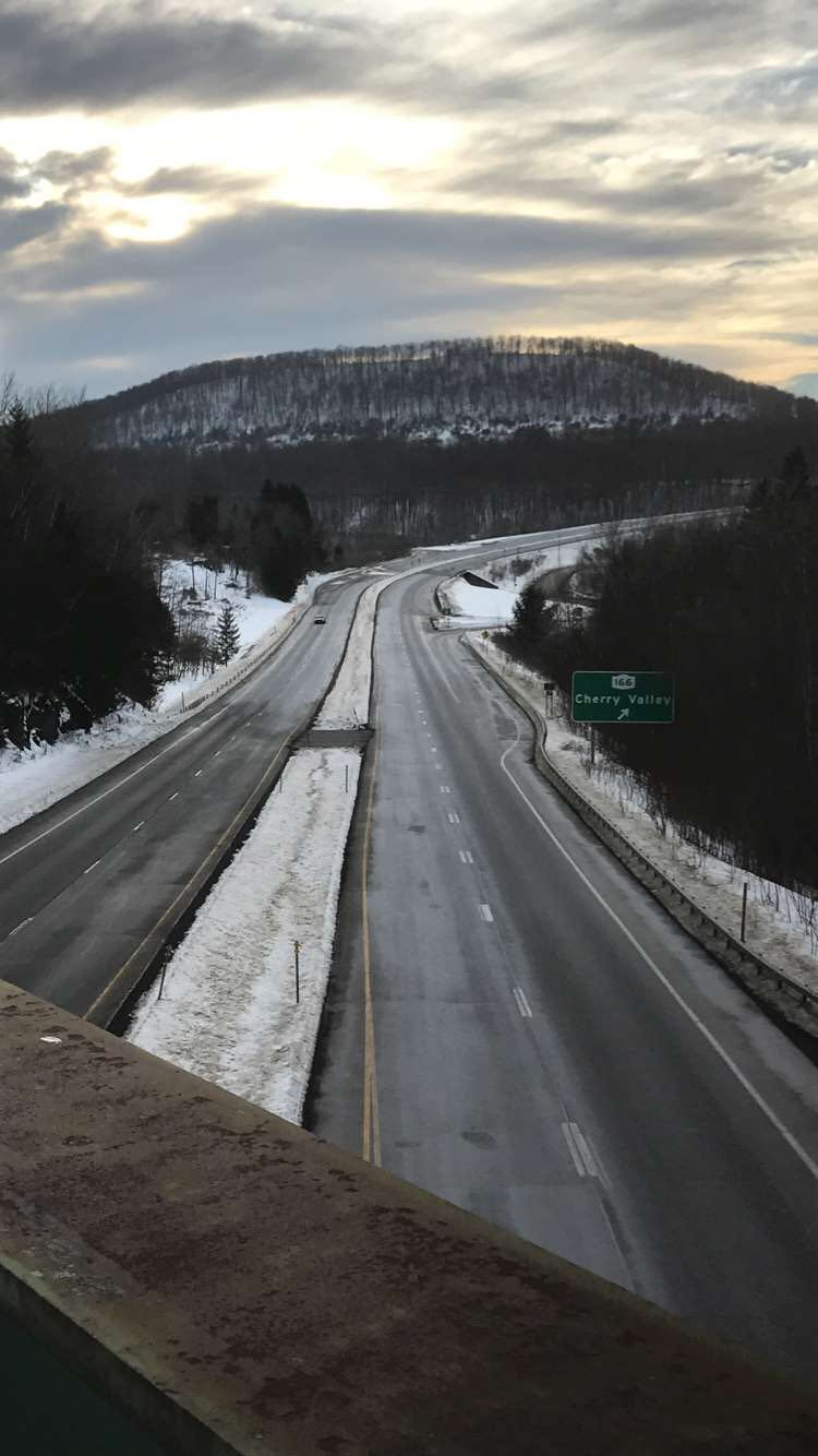 US 20 at the northern terminus of NY 166 cherry valley,ny